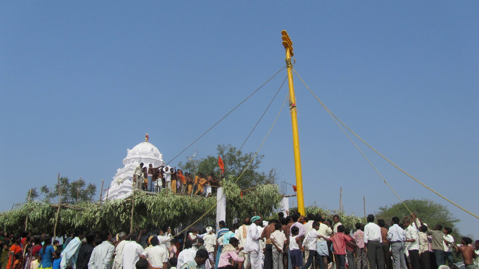 Sri Uma Naga Lingeshwara Temple, Kodur Village, Pulkal Mandal, Medak, AP, India